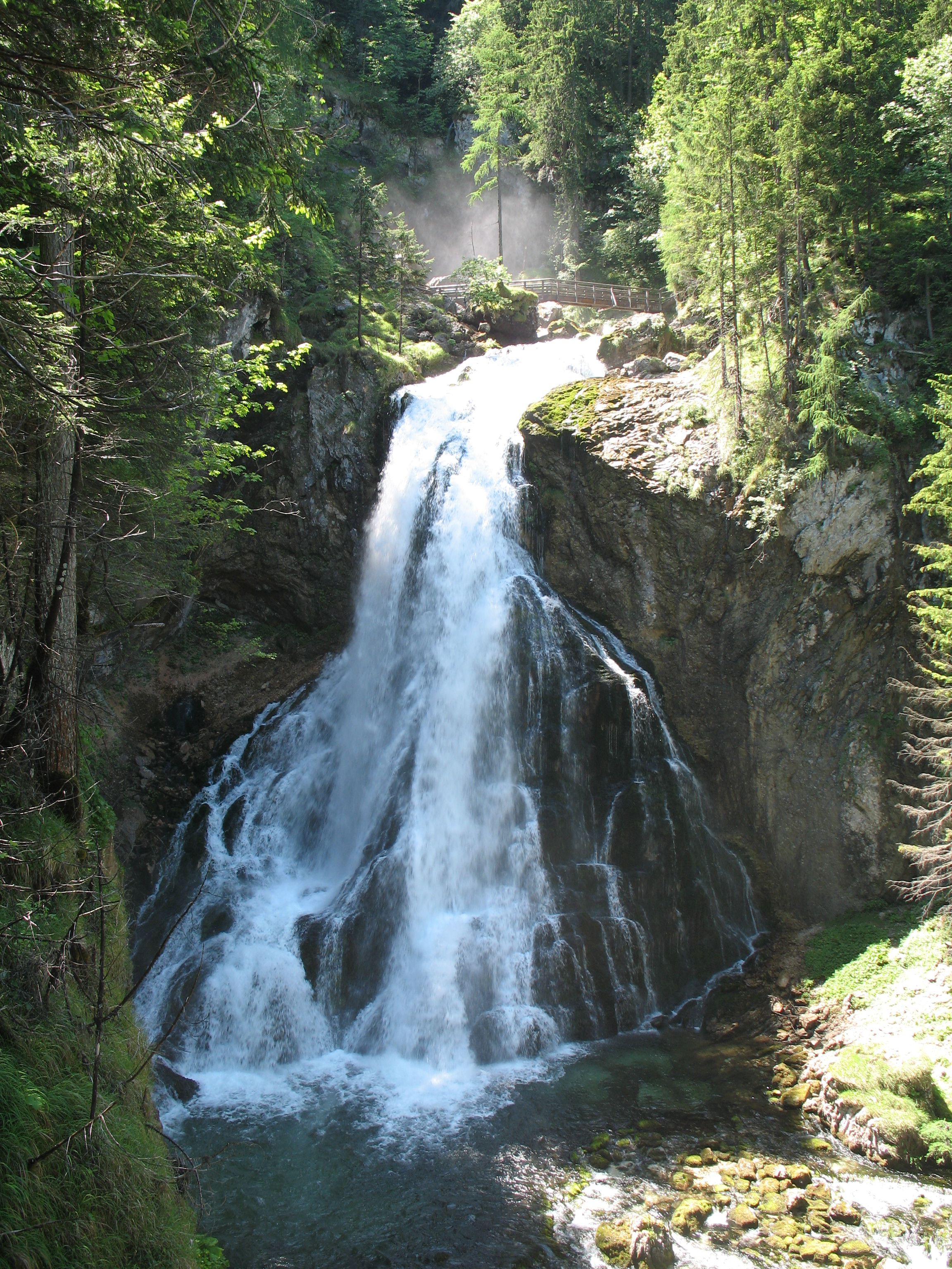 Gollinger Wasserfall, lower cascade This media shows the natural monument in Salzburg with the ID NDM00197. (other)